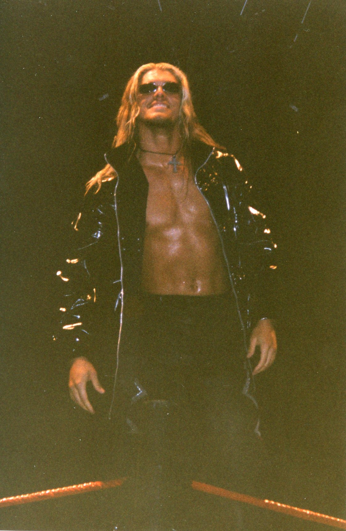 WWE - Edge in Newcastle Arena 030499 (16)